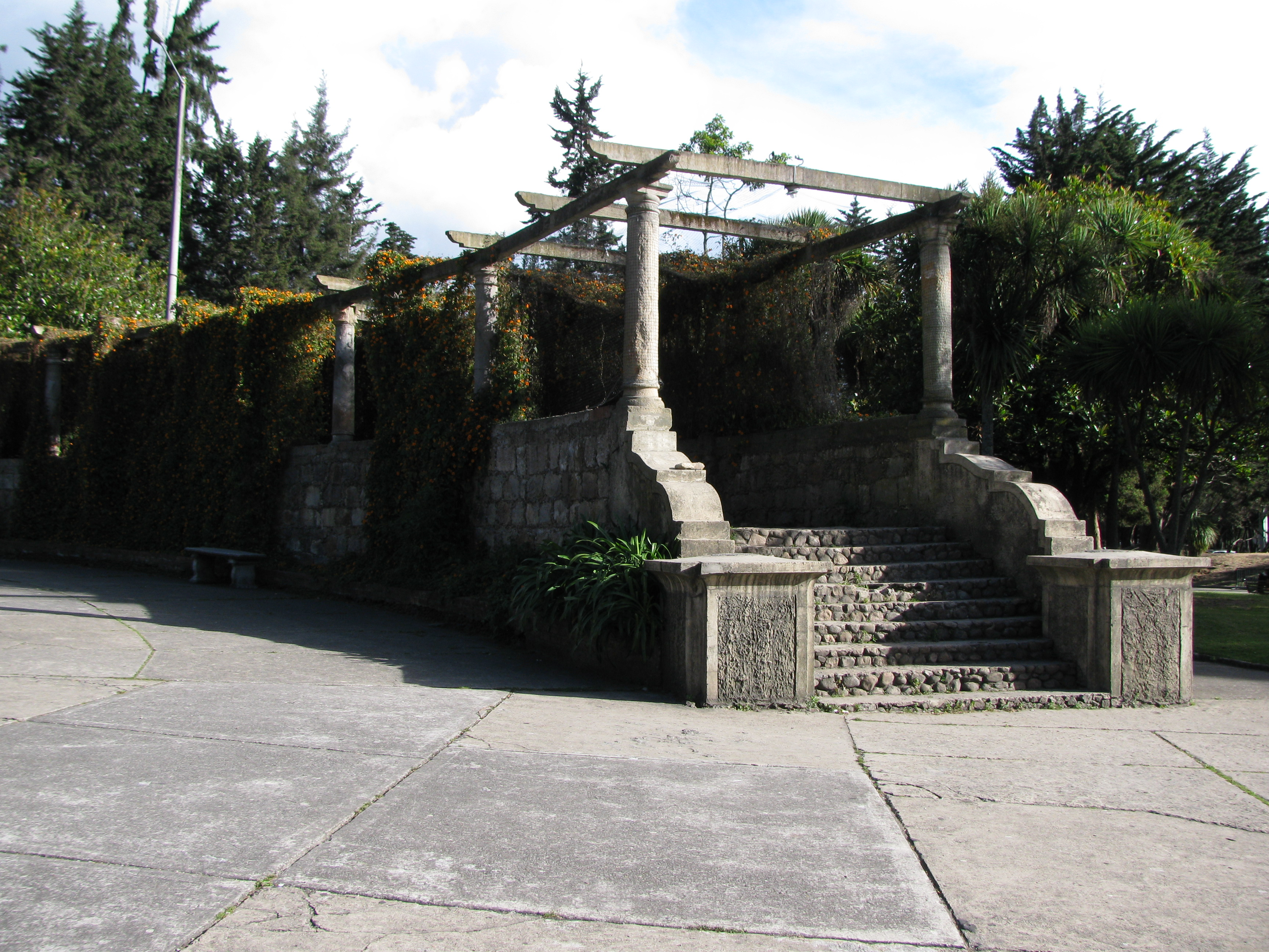 Parque Nacional Bogota